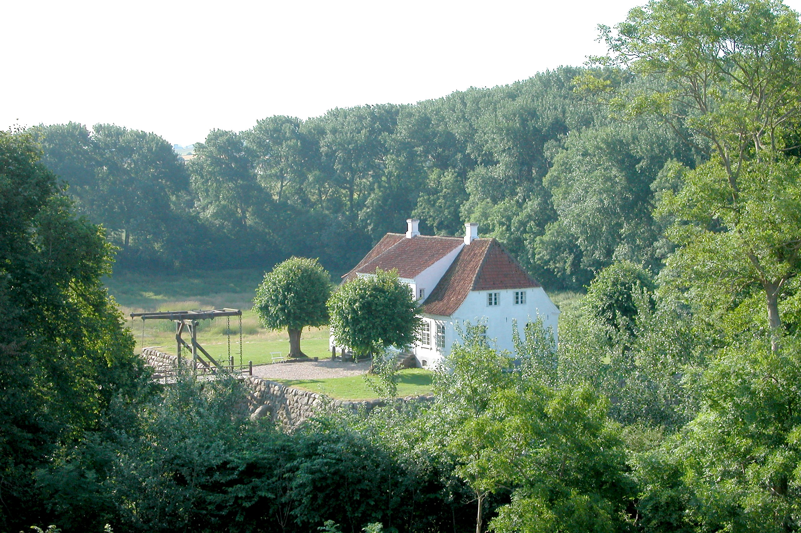 Søbygård, Ærø, Denmark